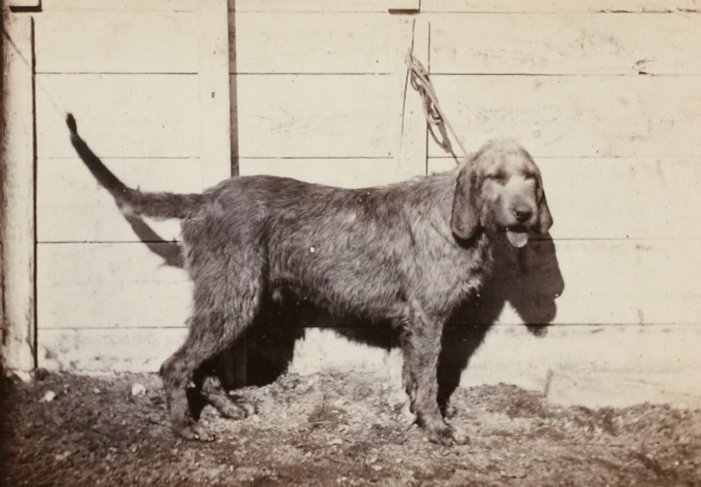 Grand Fauve de Bretagne ‘Lourdaud’, owned by Vicomte de Madec, photographed in 1865.